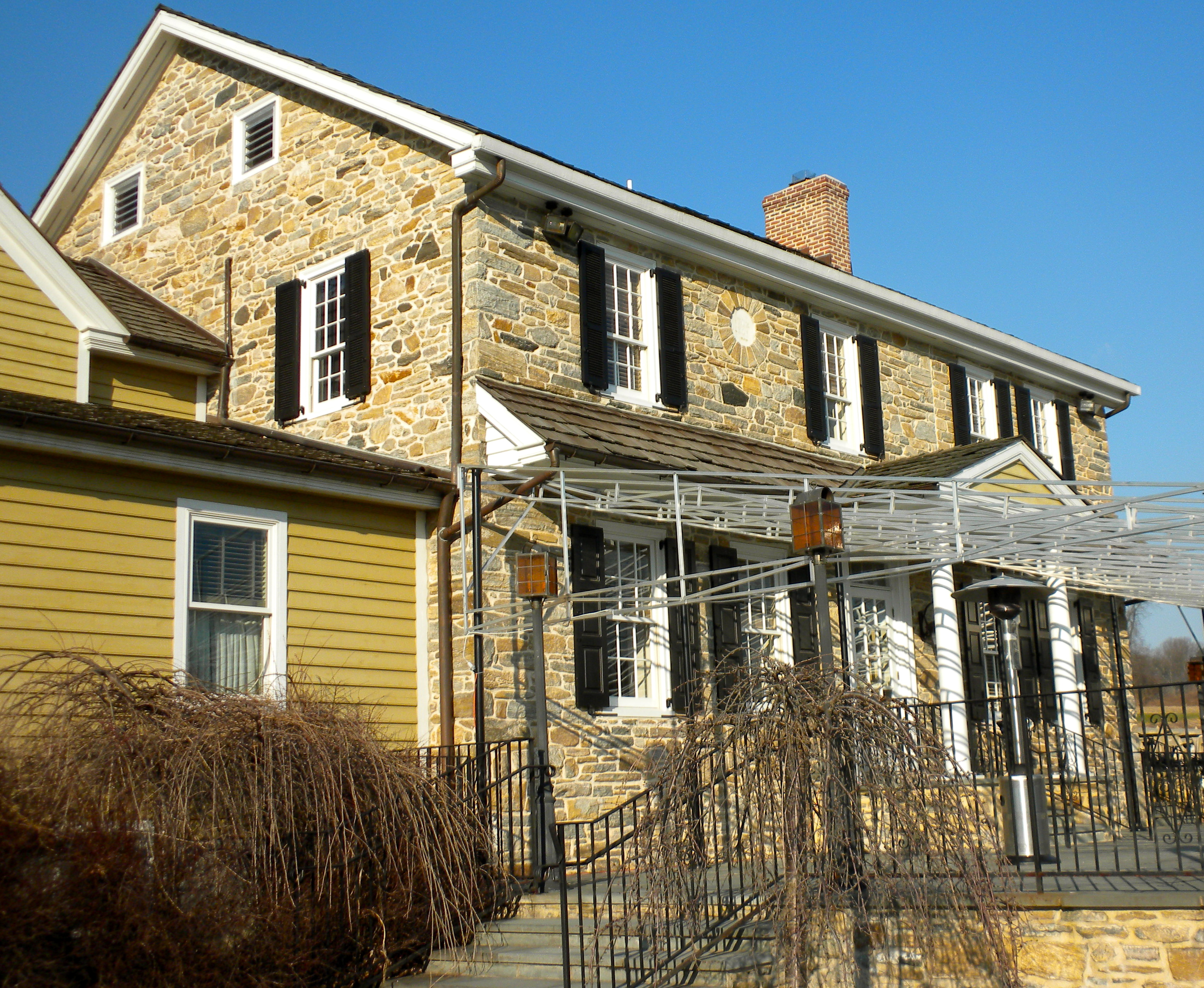 Como farm north of the intersection of Broad Run Road and Strasburg Road, near Coatesville, Chester County, Pennsylvania. On theNRHP along with its southern neighbor, the Baily Farm. Como Farm is now a Golf Course and the building has many new additions.